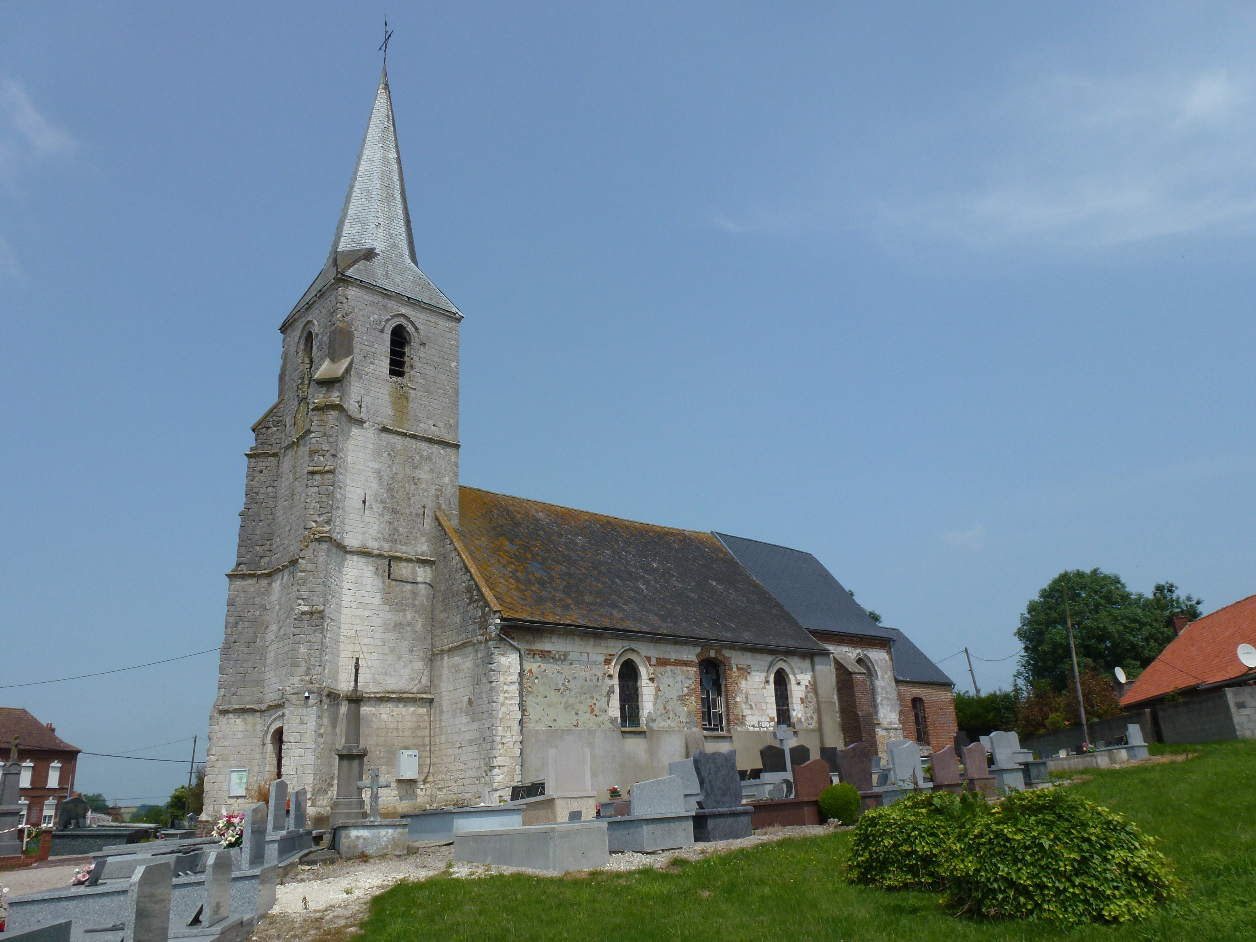 Reclinghem (Pas-de-Calais, Fr) église